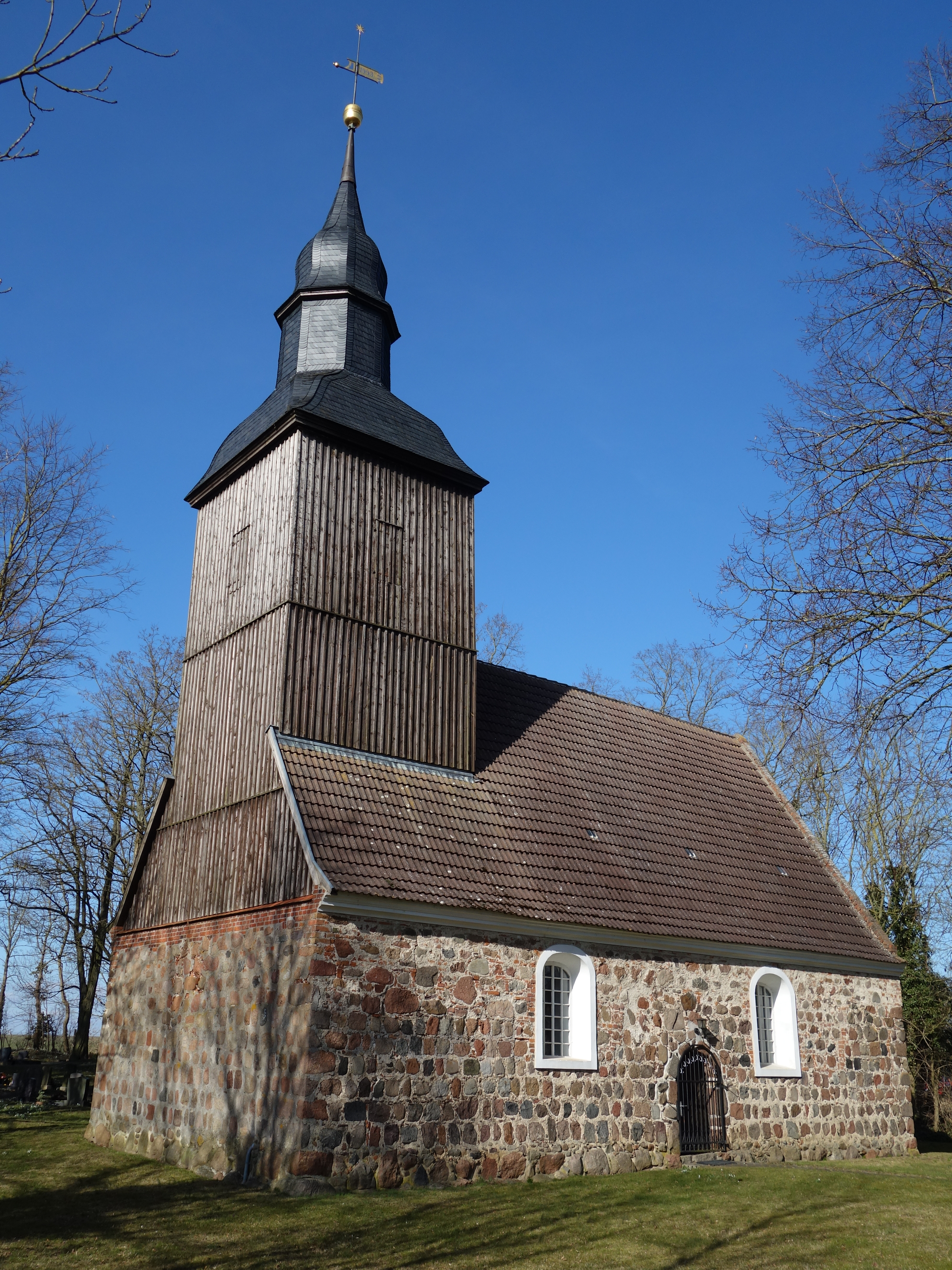 South-western view of the church in Tornow , Göritz municipality, Uckermark district, Brandenburg state, Germany